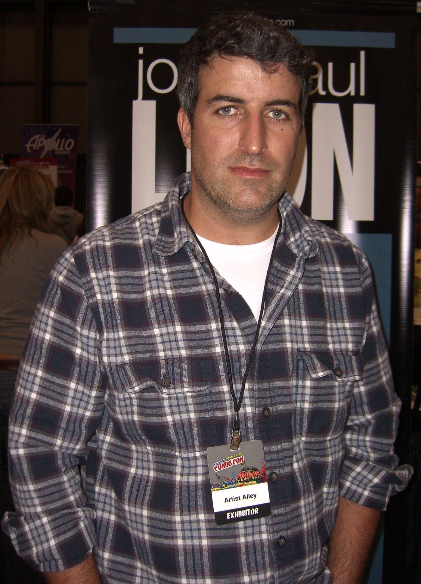 Comic book creator John Paul Leon, at the New York Comic Convention in Manhattan, October 9, 2010. Photo by Luigi Novi. This photo may be used, modified and published for any purpose, only if a easily visible credit to the photographer is placed near the photo in each instance in which it is used. (See licensing information below.) Publication of this photo without this proper attribution constitute copyright infringement. For more information on my photos, you can contact me here.